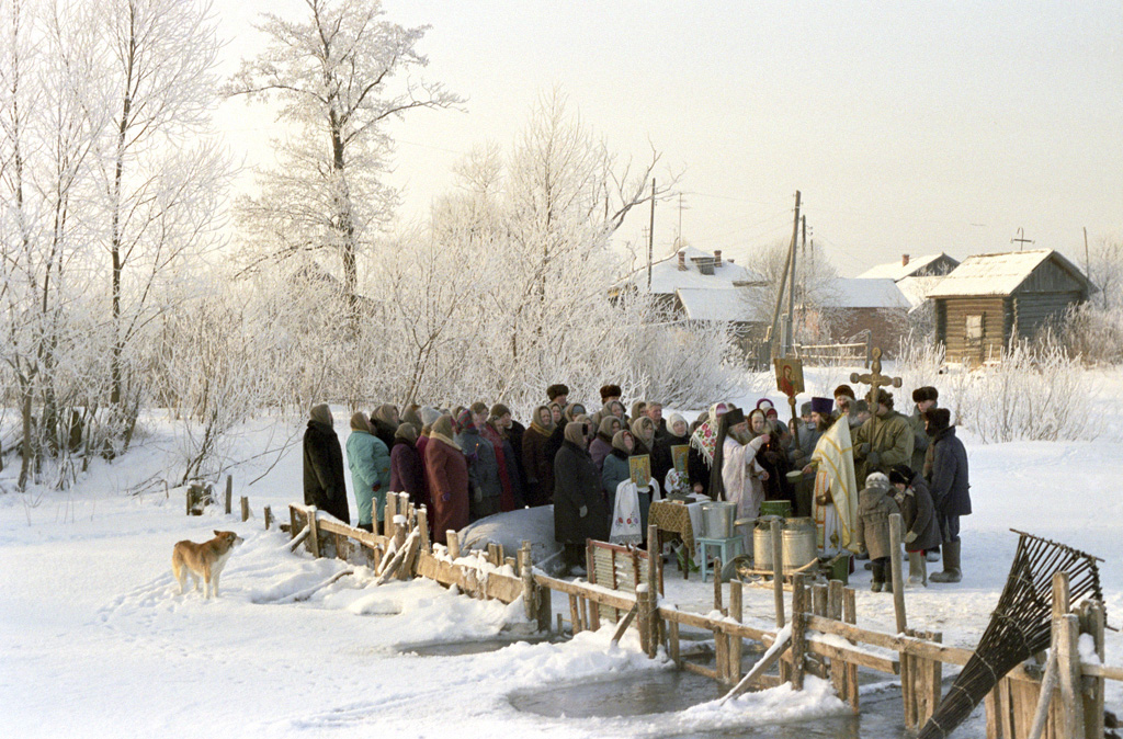 “Water consecration ritual after Crucession to river”. Water consecration ritual after a Crucession to the river on the Epiphany Day in Mugreyevo-Nikolskoye village.